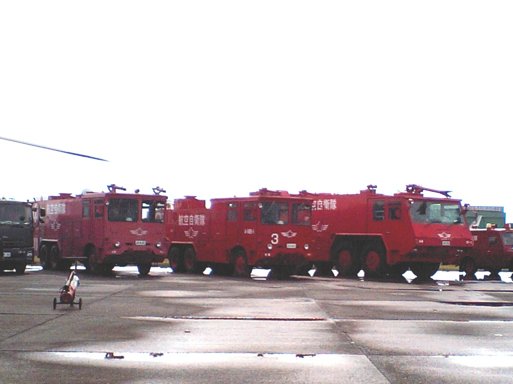 A-MB-2, A-MB-1, and A-MB-3